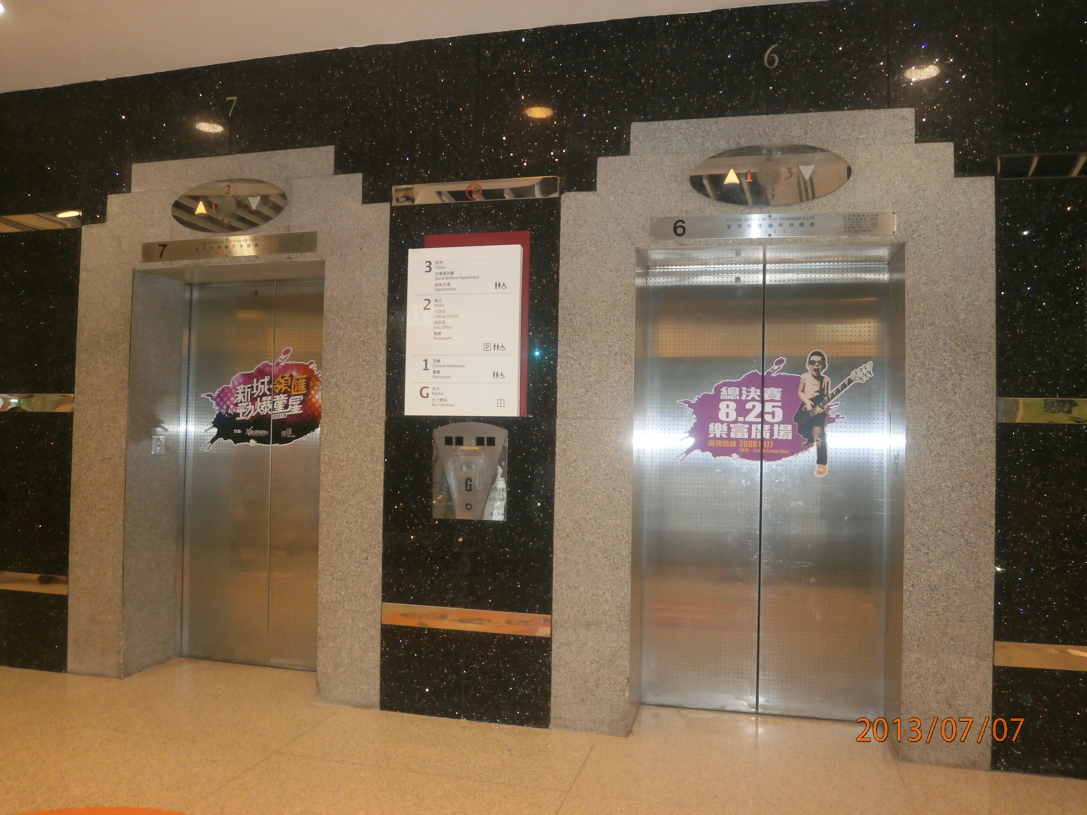 Sheung Tak Plaza Ground floor lift lobby